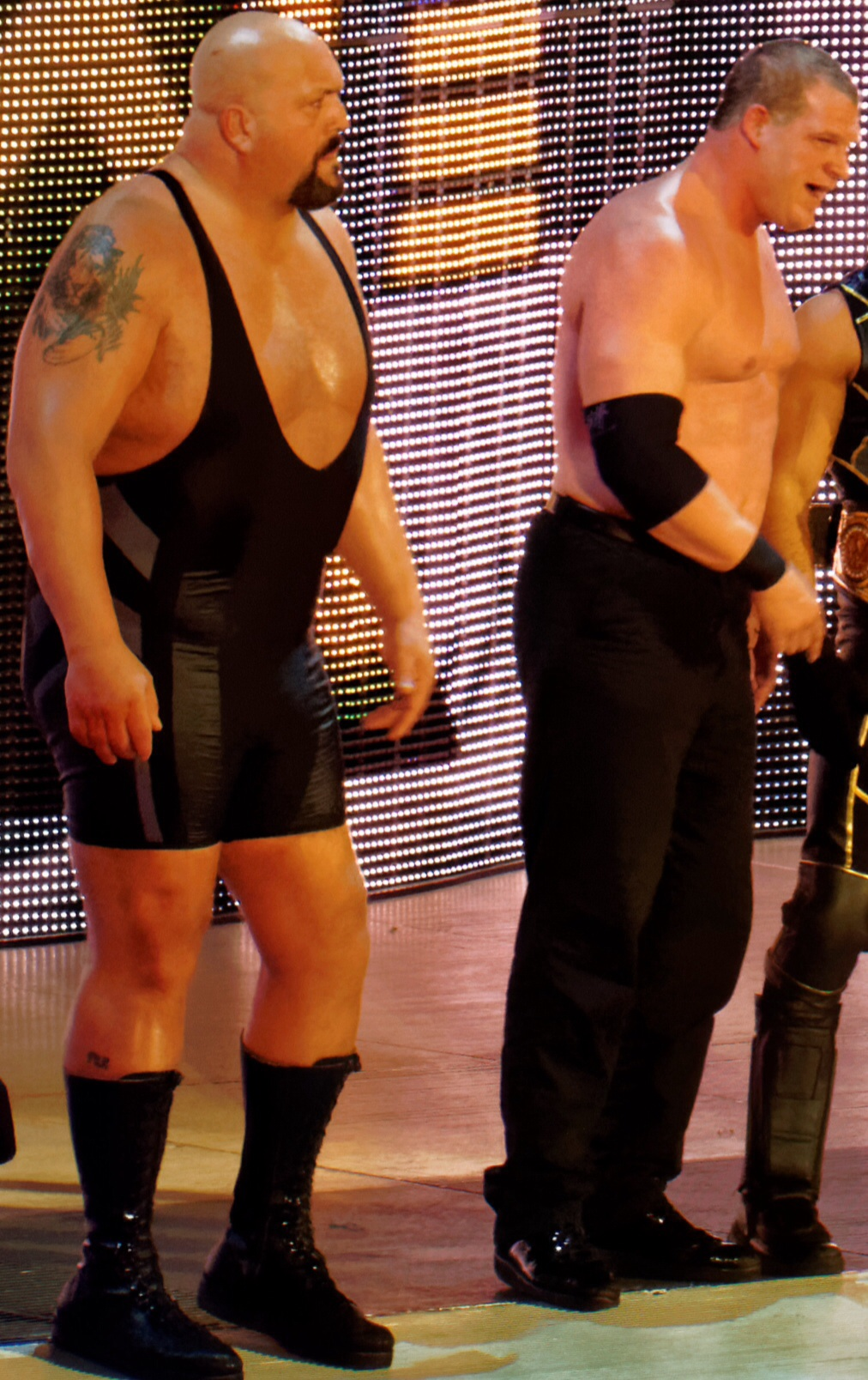 The raw everyboding is waiting for ... The One after Wrestlemania